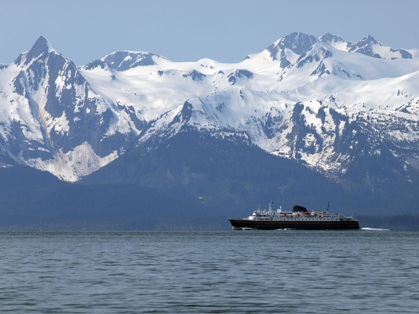 Alaska Marine Highway System cruising Lynn Canal with Chilkat Mountains